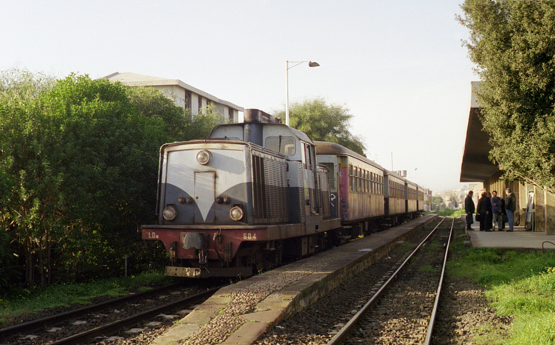 Having run round its train of 4 carriages, LDe604 waits departure for a service from Monserrato to Cagliari Piazza Repubblica on 8 February 2001. This was a short working on the 950mm gauge line operated by Ferrovie della Sardegna (FdS) from Cagliari to Isili. Since this photo was taken the section of line from Cagliari to here, Monserrato has been converted to tramway operation.